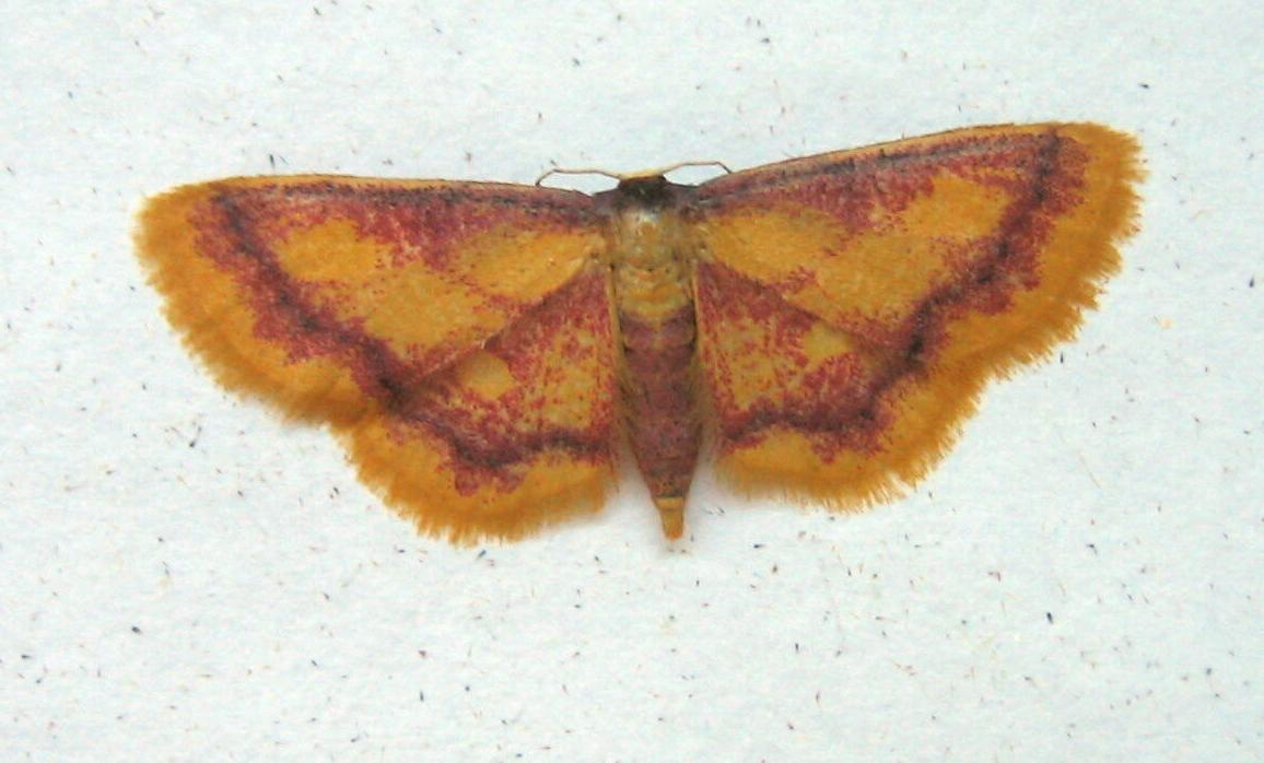 Idaea muricata (Hufnagel, 1767), Geometridae, Lepidoptera, Groß Machnow, Brandenburg